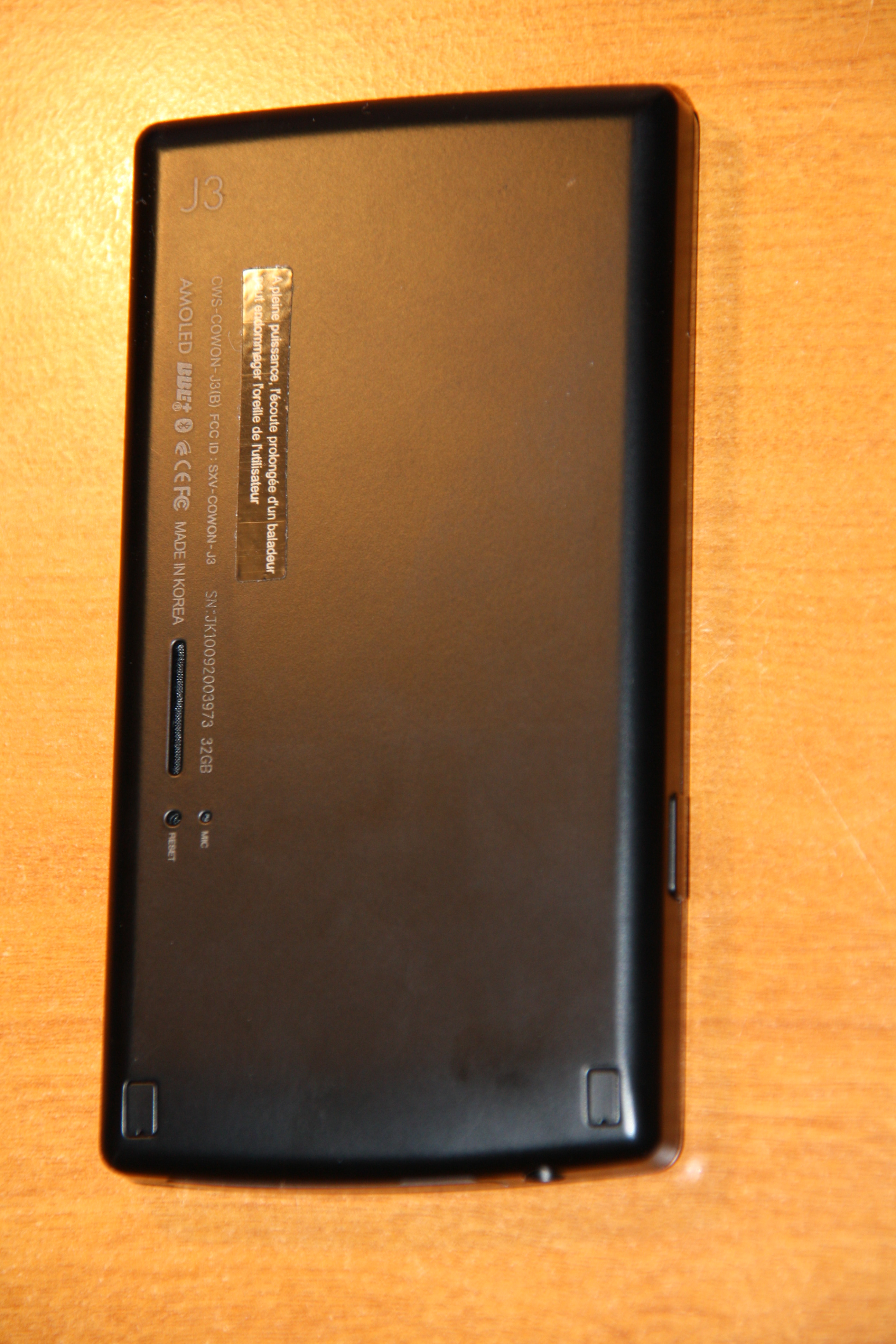 MP3 player Cowon J3, back side.